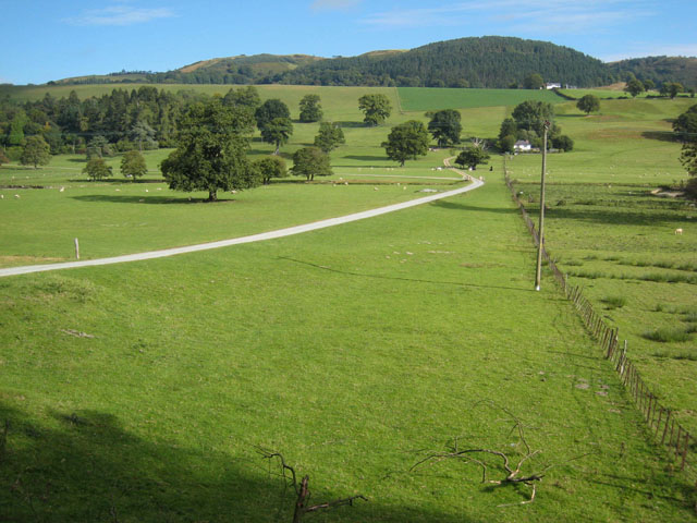 Parkland at Bodfach Hall The driveway to Bodfach Hall curves away to the left. Bodfach Hall SJ1320 is a former stately home, now an Hotel, with famous gardens.